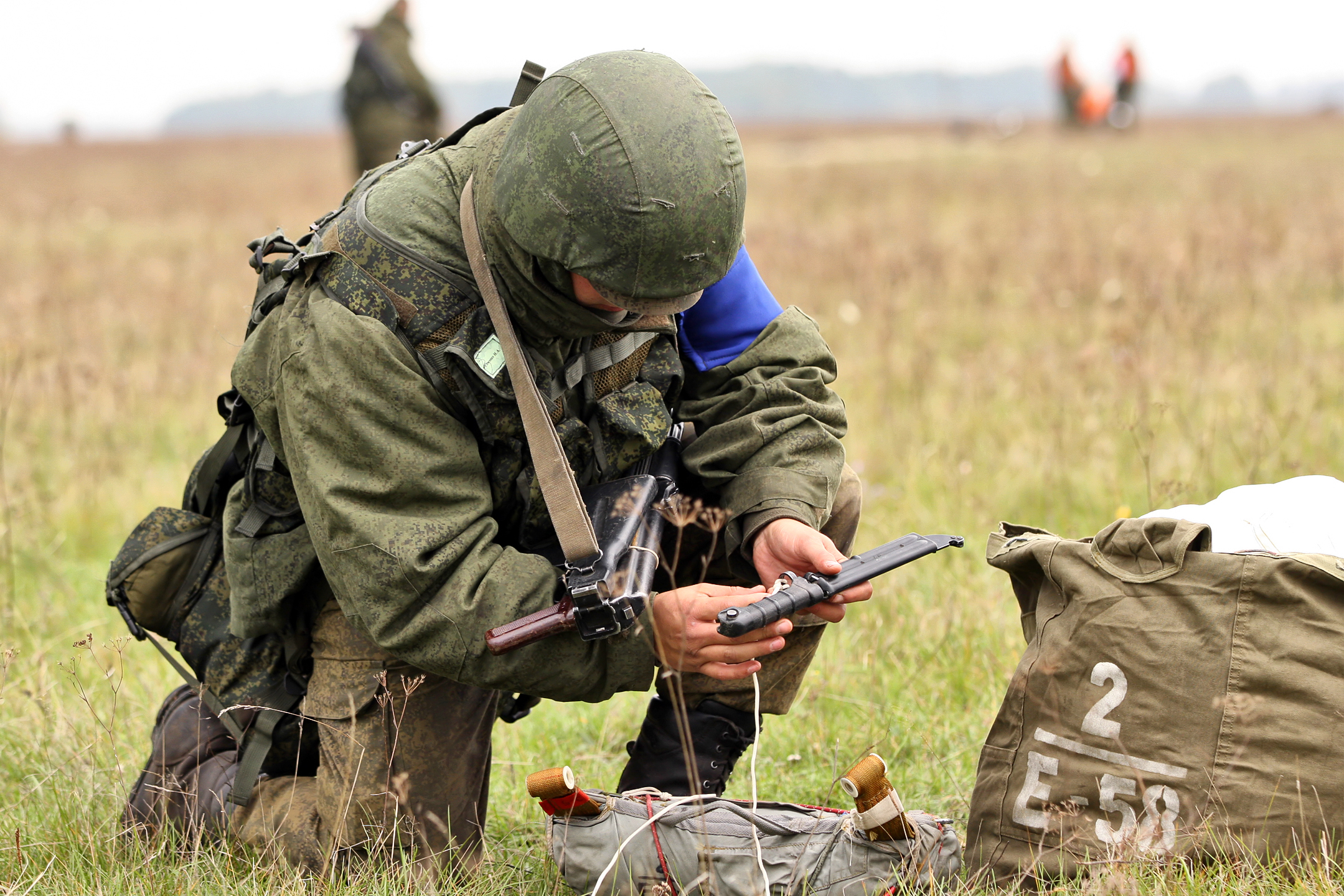 In not combat situation each paratrooper should pack the parachute and move to the assembly point